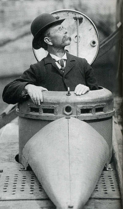 John Philip Holland, U.S. American engineer (1841-1914)